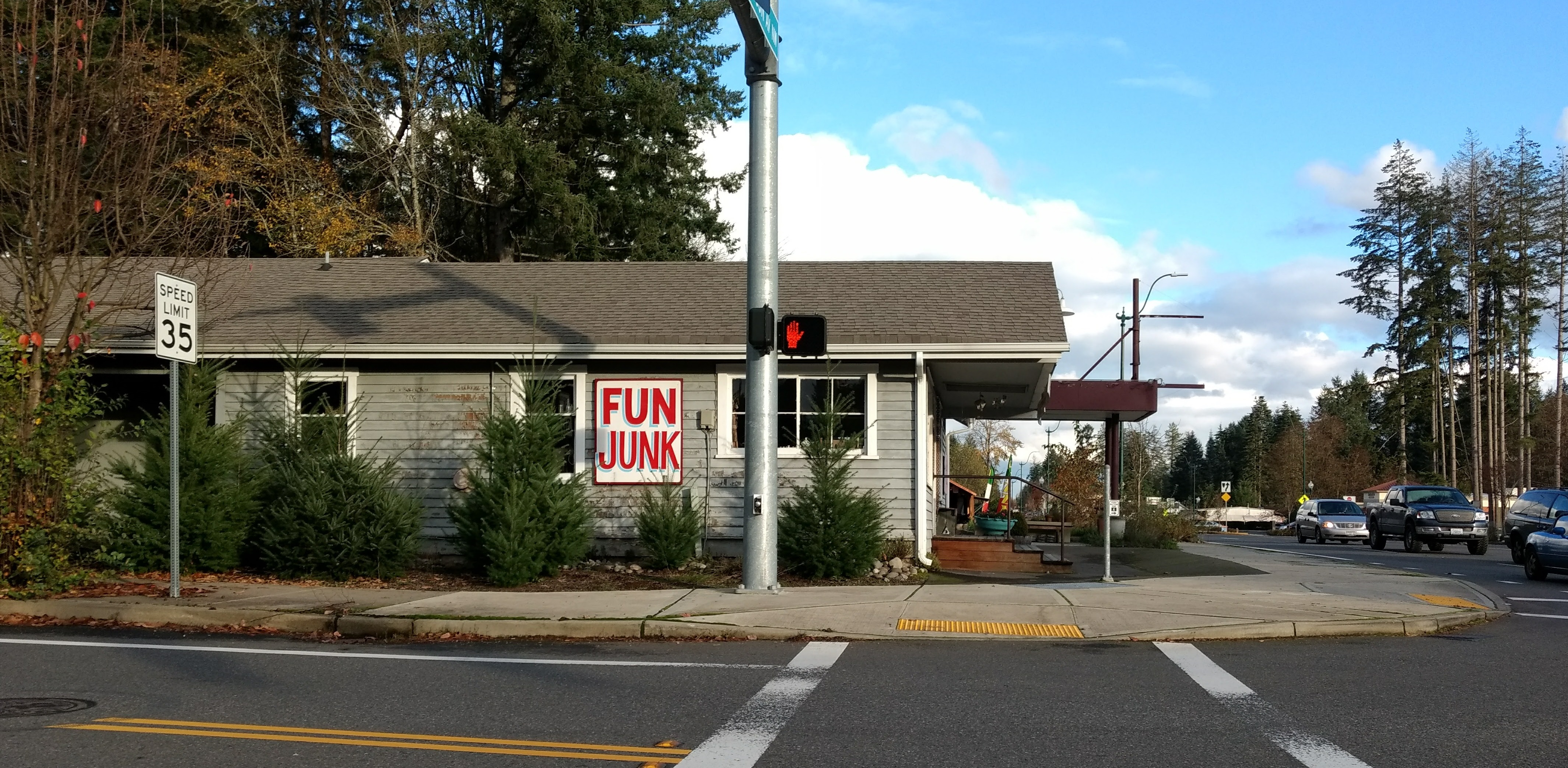 Former feed store at Mud Bay Road and Kaiser Road in Olympia, Washington dating to 1905. Location of the first Mud Bay Pet retail location in the 1988. Photograph taken November 17, 2016. Mud Bay Road renamed to Harrison at this location sometime in the 2000s.